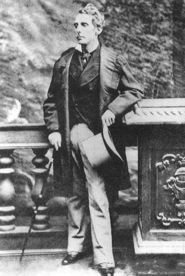 Sir John Pope Hennessy, 8th Governor of Hong Kong.